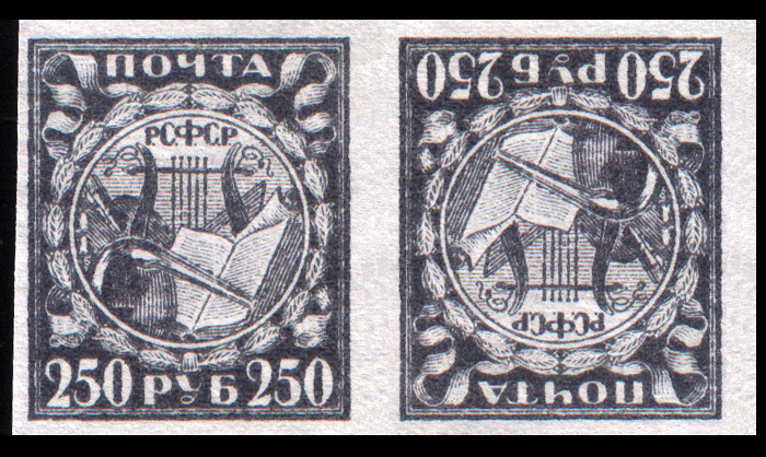 RSFSR stamp, 2nd definitive issue, tête-bêche, 1921, 250 r.